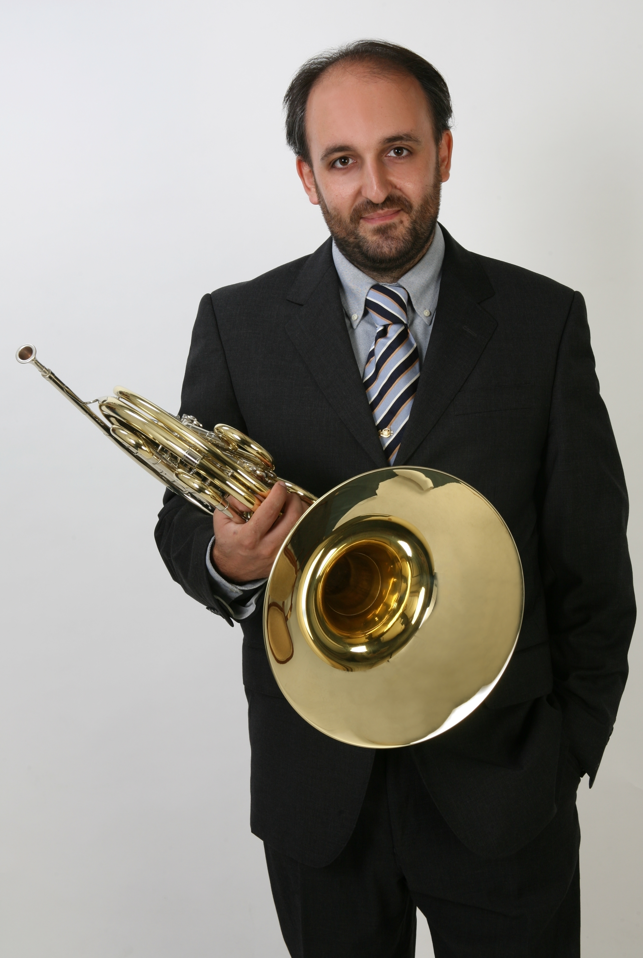 Ricardo Matosinhos holding his Horn